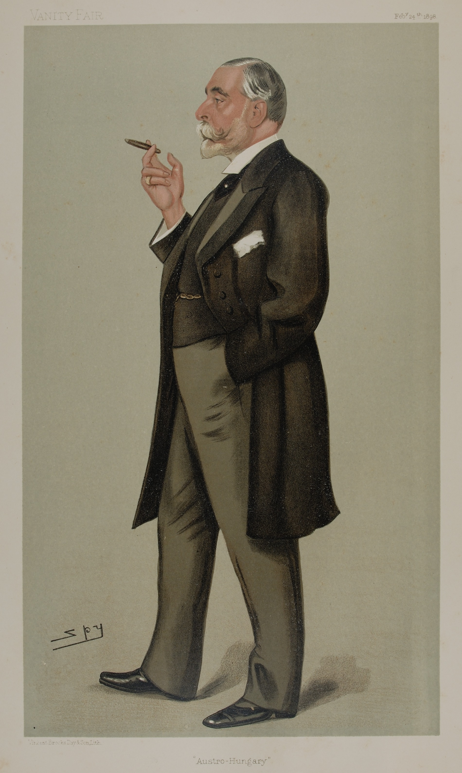 Men of the Day No. 705: Caricature of Count Franz Deym. Caption read "Austro-Hungary".